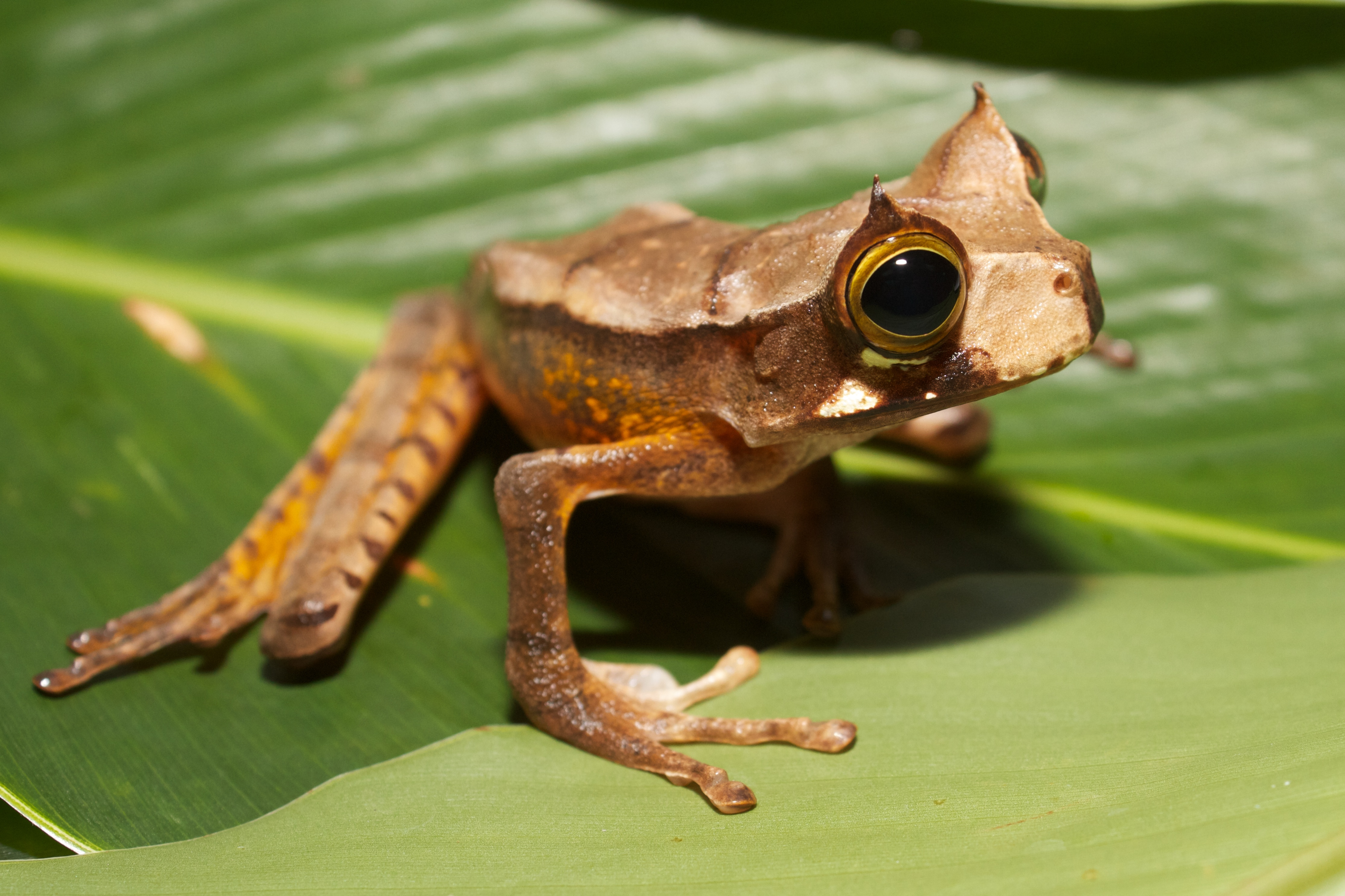 Gastrotheca cornuta